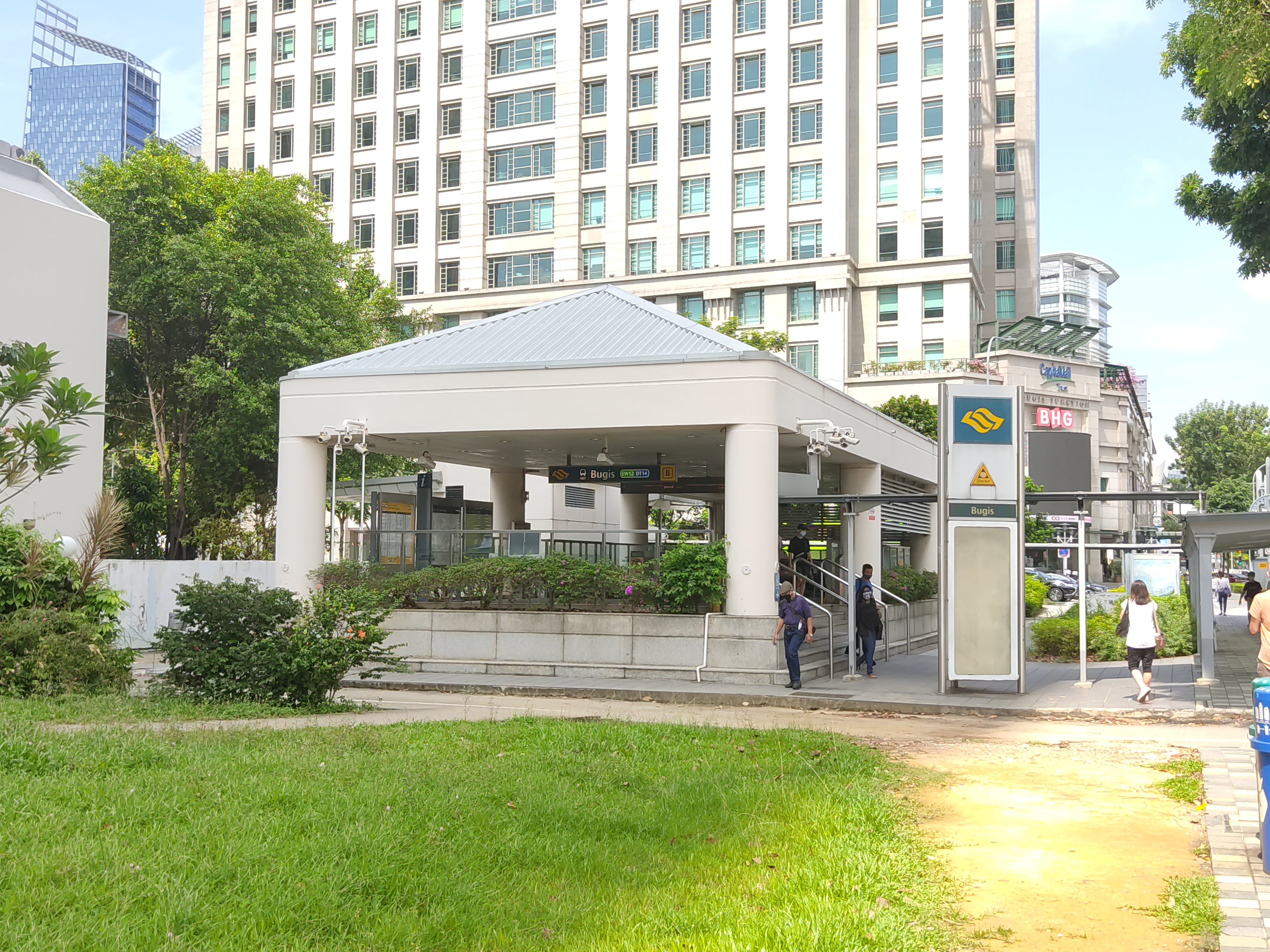 This file supersedes the file EW12 DT14 Bugis Exit B.jpg. It is recommended to use this file rather than the other one.